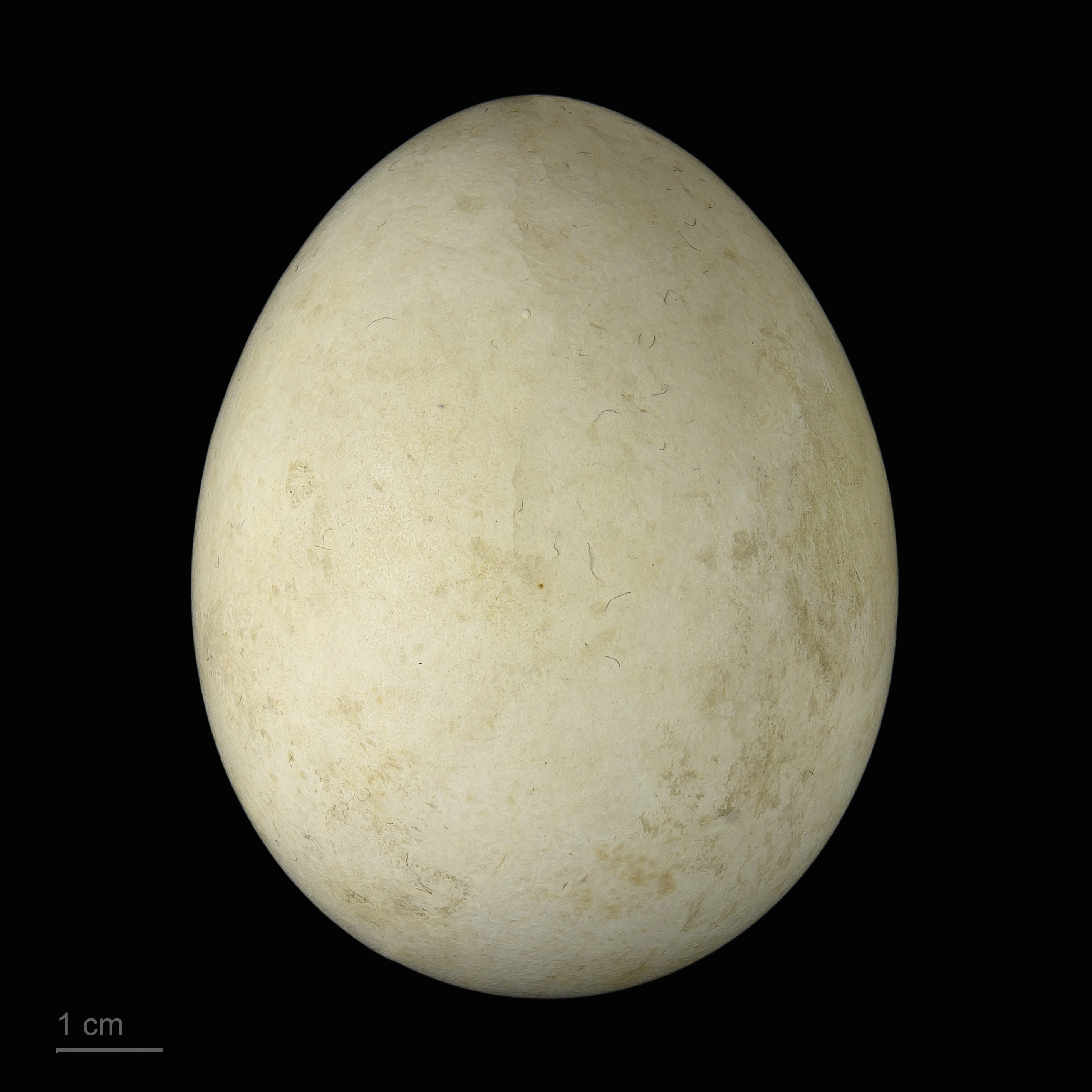 Eggs of Haliaeetus albicilla groenlandicus collection of Jacques Perrin de Brichambaut.